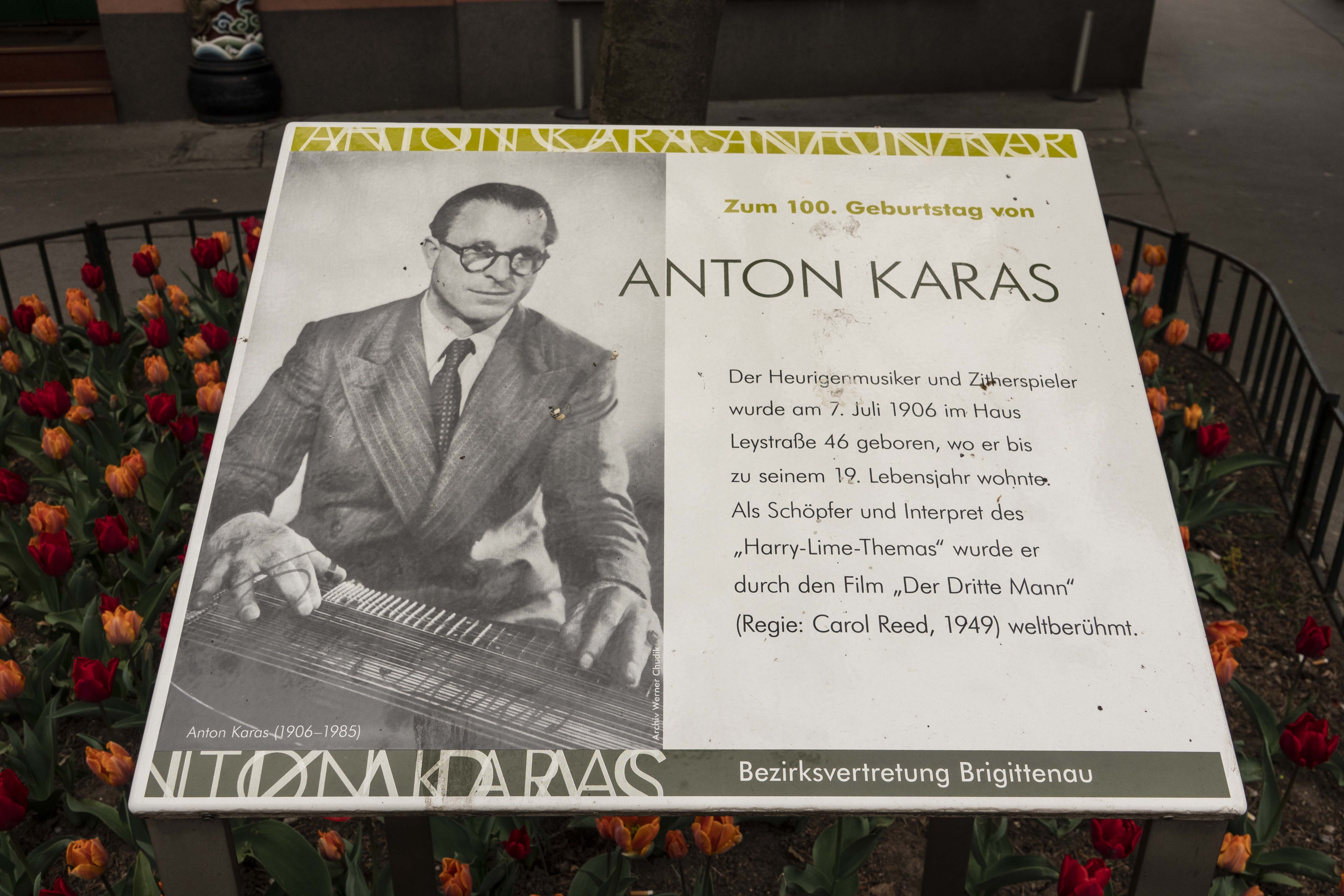 The memorial plaque in Brigittenau, Vienna, (Leystraße corner Marchfeldstraße) shall commemorate Anton Karas.